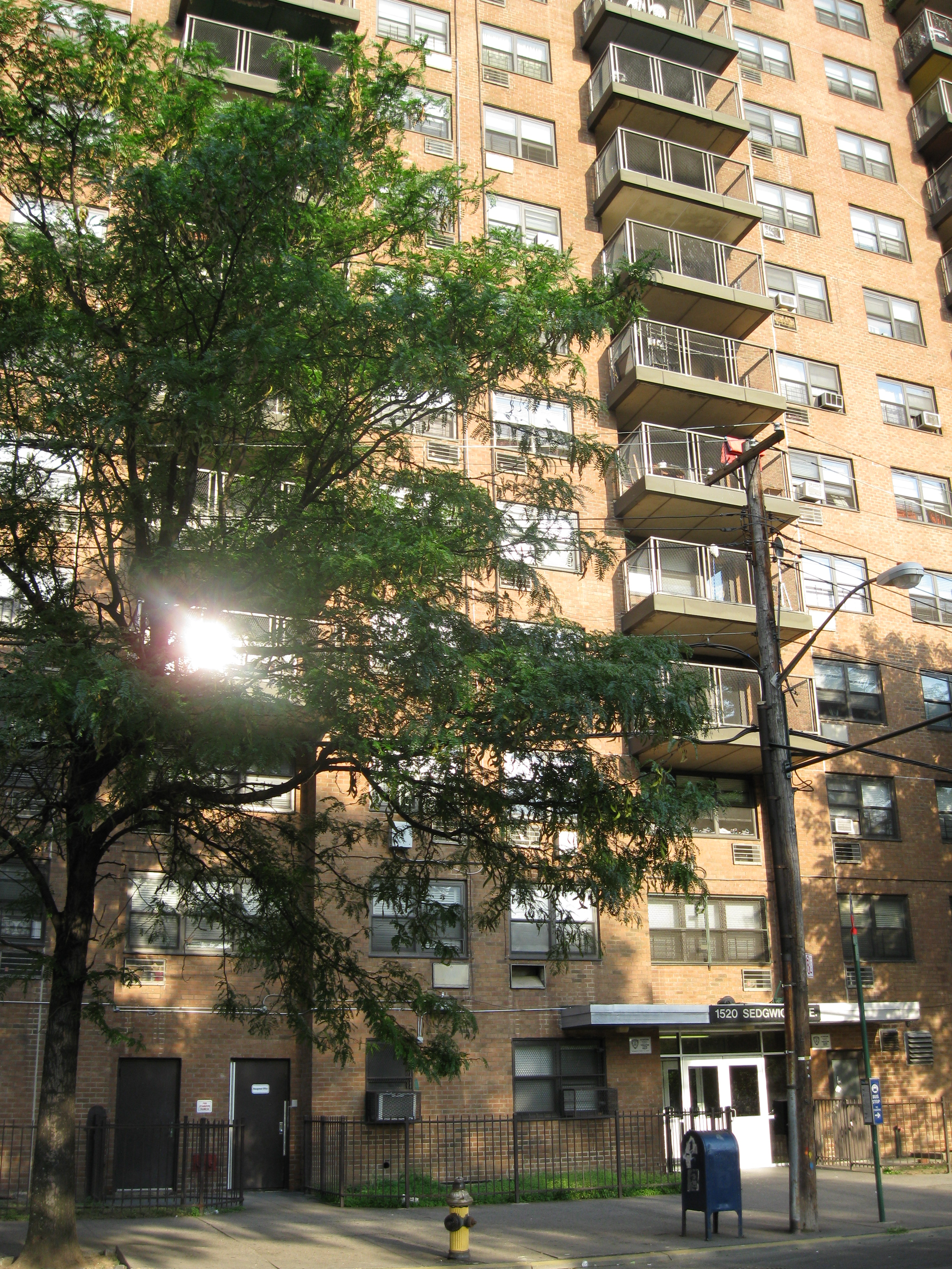 Another photo ( for first version) of the front of 1520 Sedgwick Avenue in the Western Bronx. Kool Herc, generally credited as the originator of hip-hop music, lived and threw his first parties in this building. Photo from July 2009.